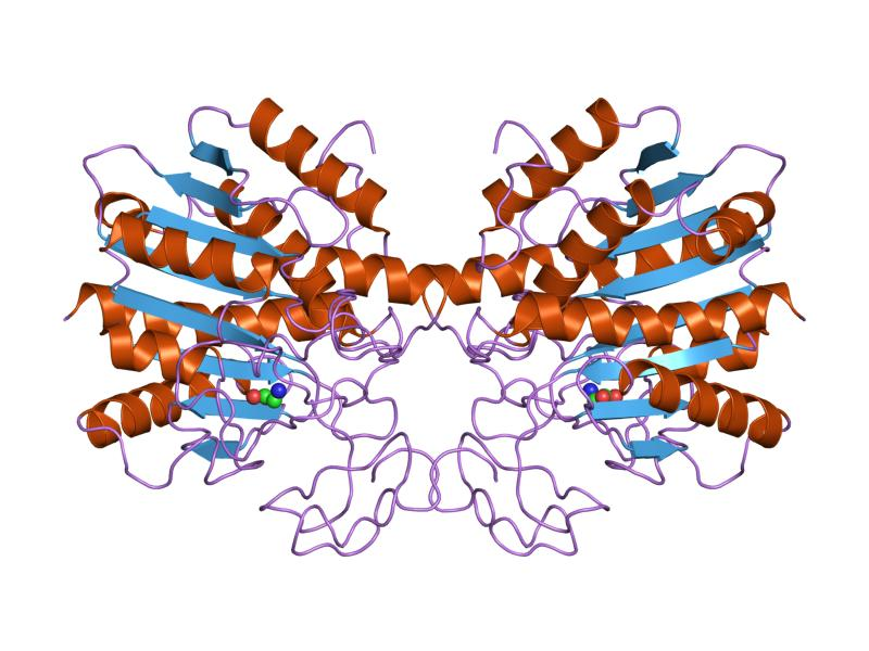 Cartoon representation of the molecular structure of protein registered with 4cpa code.